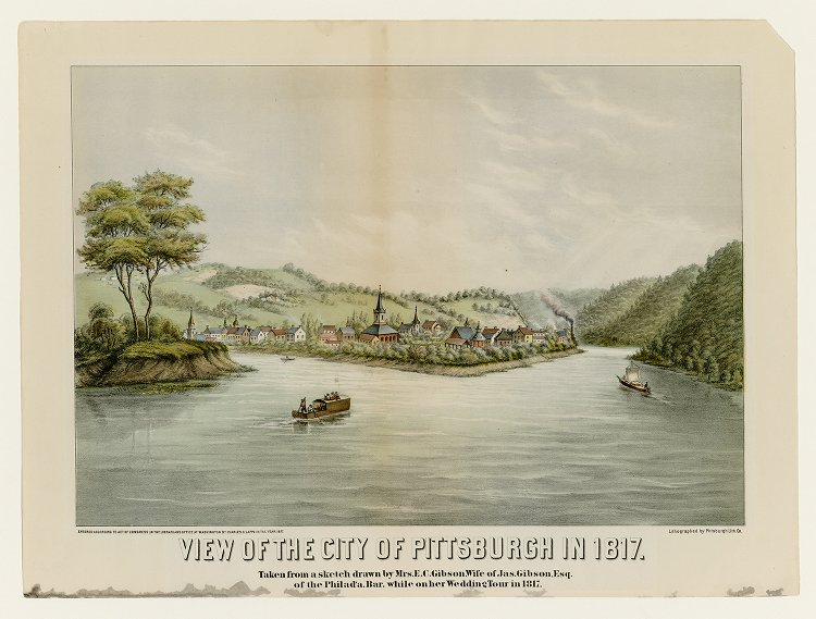 Inscribed "After a sketch by Mrs. E.C. Gibson, wife of Jas. Gibson, Esq. of the Philadelphia bar, while on a wedding tour in 1817." Chromolithograph. 12.5 x 18.25 inches (image size). Published by Charles O. Lappe.